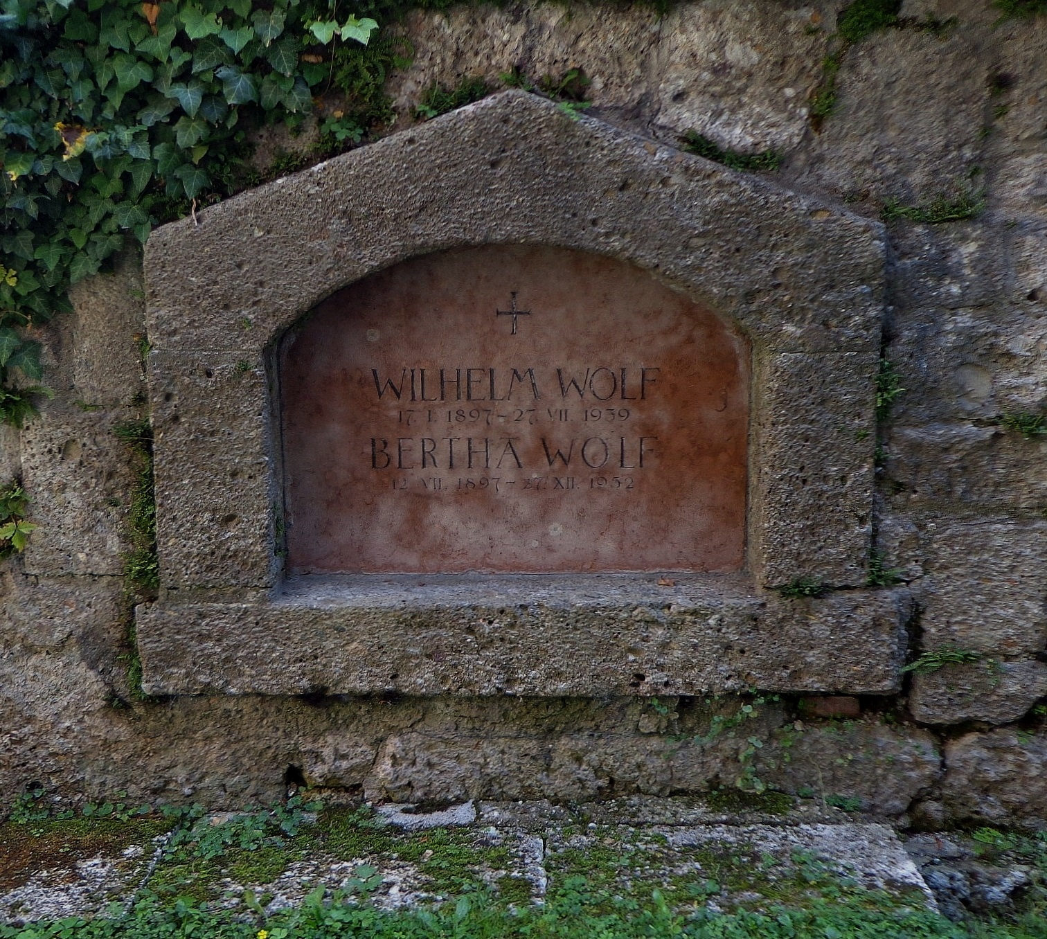 Petersfriedhof Salzburg: grave of the Wolf family. Among those buried here is Wilhelm Wolf, last Austrian Foreign minister before the country's annexation by Nazi Germany in 1938